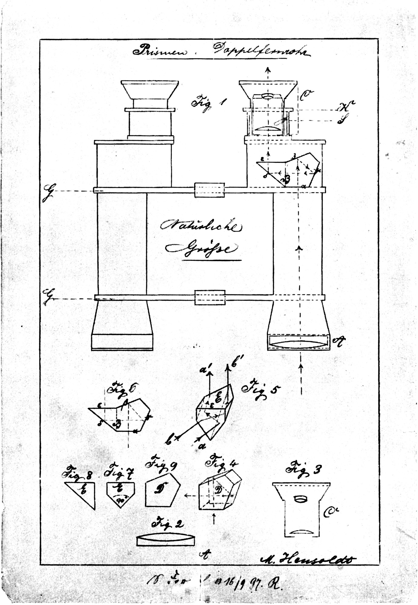 Engineering drawing of double-prism binoculars